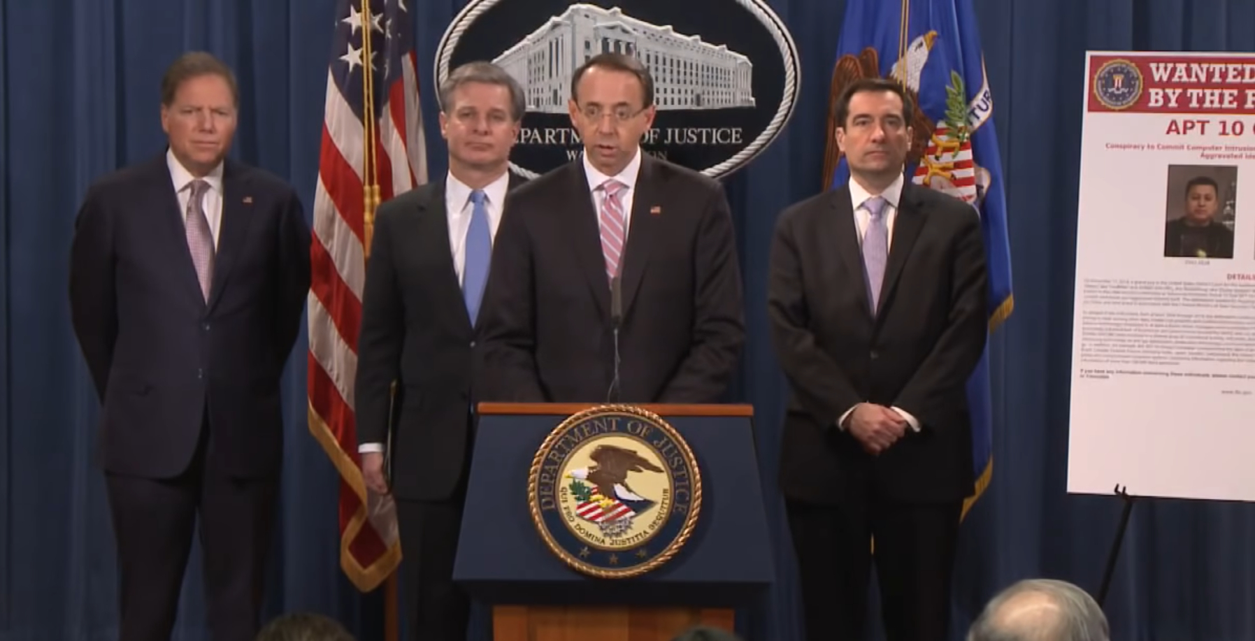 Deputy Attorney General Rod J. Rosenstein, joined by FBI Director Chris Wray, National Security Division Assistant Attorney General John Demers, and Southern District of New York U.S. Attorney Geoffrey Berman, Announces Charges Against Chinese government hackers for economic aggression and espionage Washington, DC ~ Thursday, December 20, 2018 Two Chinese Hackers Associated With the Ministry of State Security Charged with Global Computer Intrusion Campaigns Targeting Intellectual Property and Confidential Business Information Documents and Resources Related to December 20, 2018 Press Conference FBI Director Christopher Wray’s Remarks Regarding Indictment of Chinese Hackers U.S. Charges China Intelligence Officers Over Hacking Companies and Agencies US Indicts Two Chinese Nationals for Massive Hacking Campaign DOJ says Chinese hackers compromised sensitive data